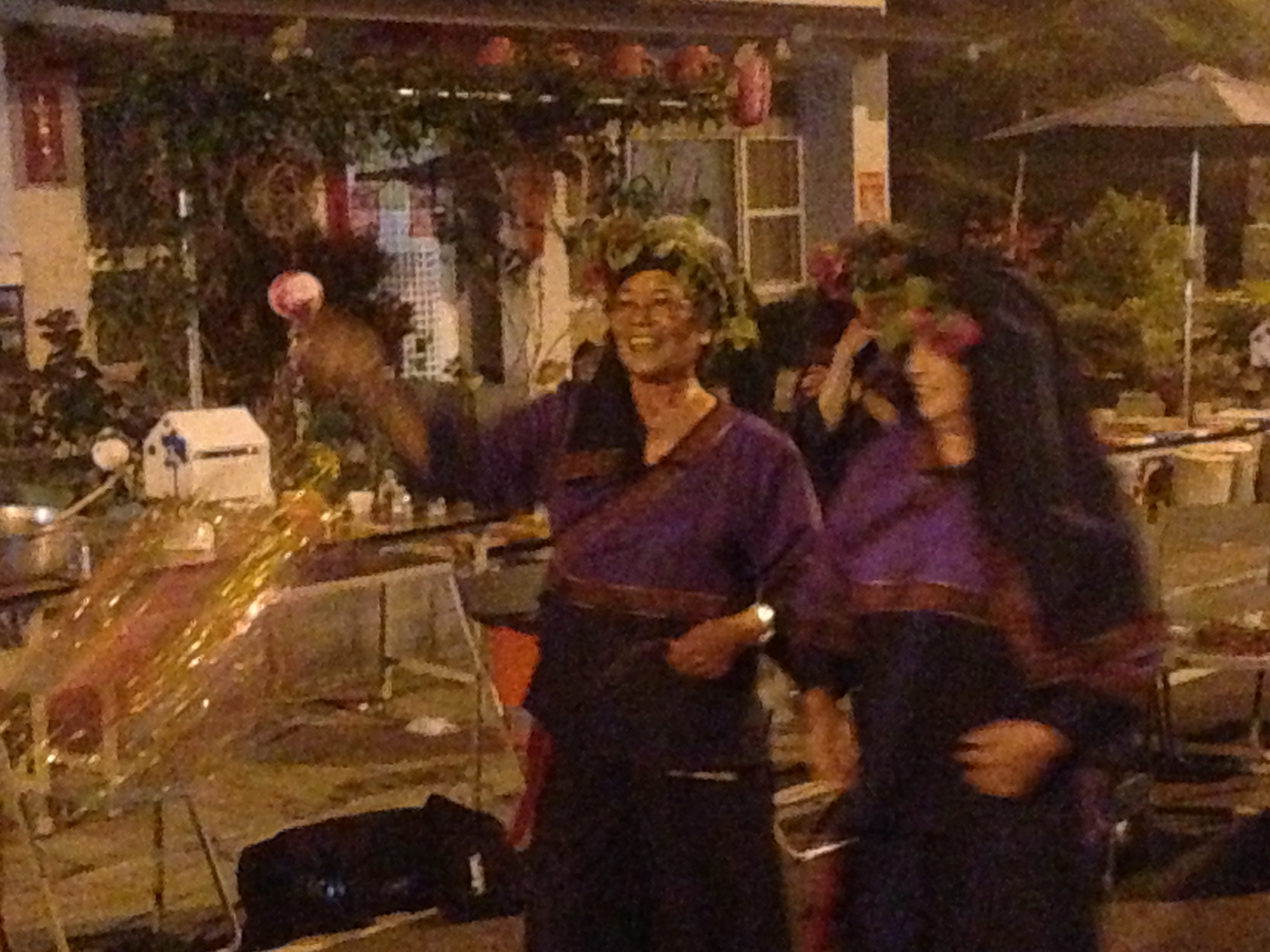 A female elder "swings the basket" on the Women's Night of indigenous Taivoan people in Xiaolin, Kaohsiung. 中文（台灣）: 小林村大武壠族查某暝，女性耆老進行「甩菜袋」。